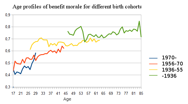 Age profile of benefit morale for different birth cohorts. Respondents' mean share of answer "claiming government benefits to which you are not entitled is never justifiable". Means only reported if a minimum of observations in age-cohort combination. Data from World Value Survey, presented in Friedrich Heinemann: Is the Welfare State Self-destructive? A Study of Government Benefit Morale.